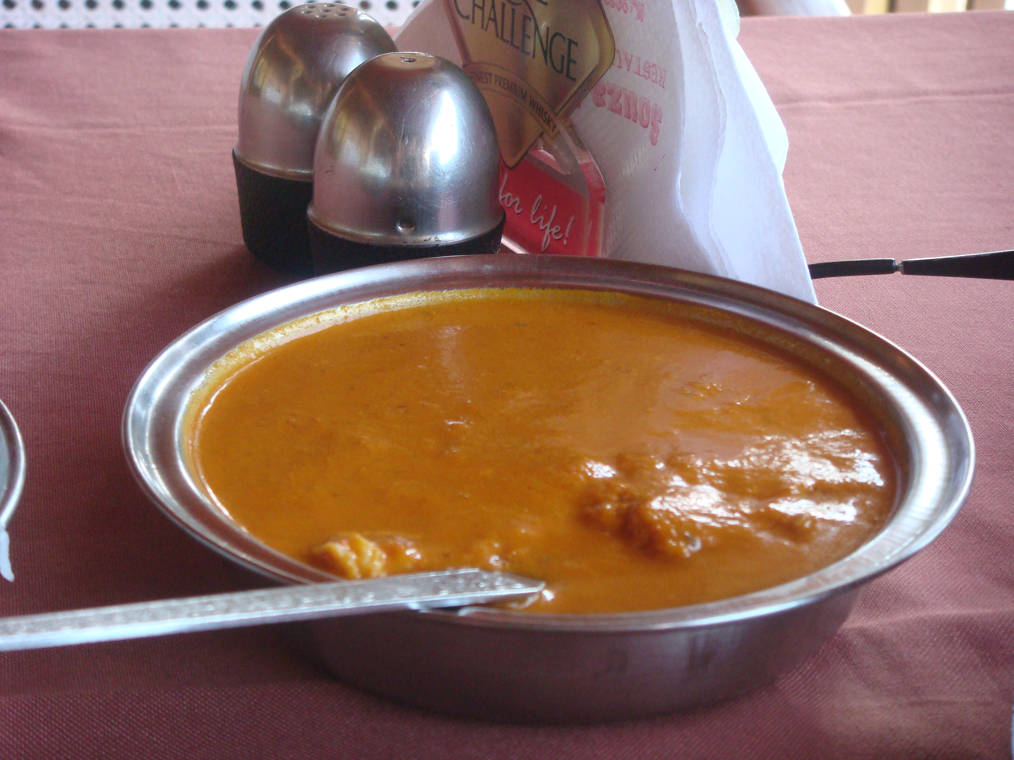 Goan prawn curry at a restaurant in Calangute, Goa. Photo taken November 2009.